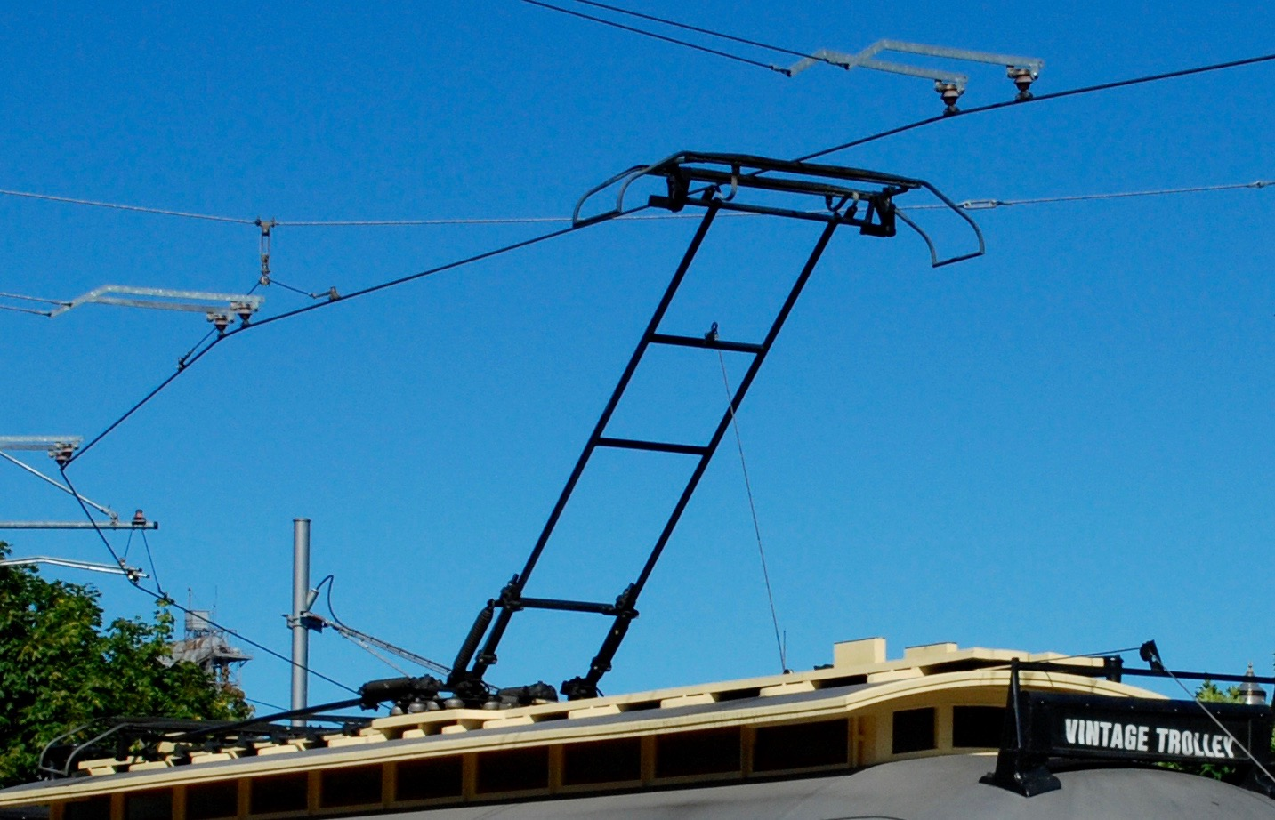 Instead of a trolley pole, the four replica Brill streetcars built in 1991–92 by Gomaco for the Portland Vintage Trolley service used this uncommon design of current collector that was a hybrid of bow collector and pantograph designs. This allowed the cars to operate under overhead wire that had been designed for use by pantograph-equipped light rail vehicles running on the same tracks. Although nearly unique, similar current collectors were used on Chicago's former Skokie Swift line until 1948.